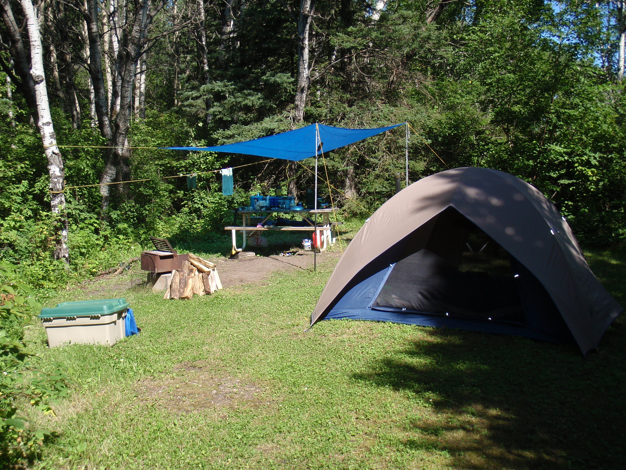 Deep Lake tenting campsite in Riding Mountain National Park, Manitoba